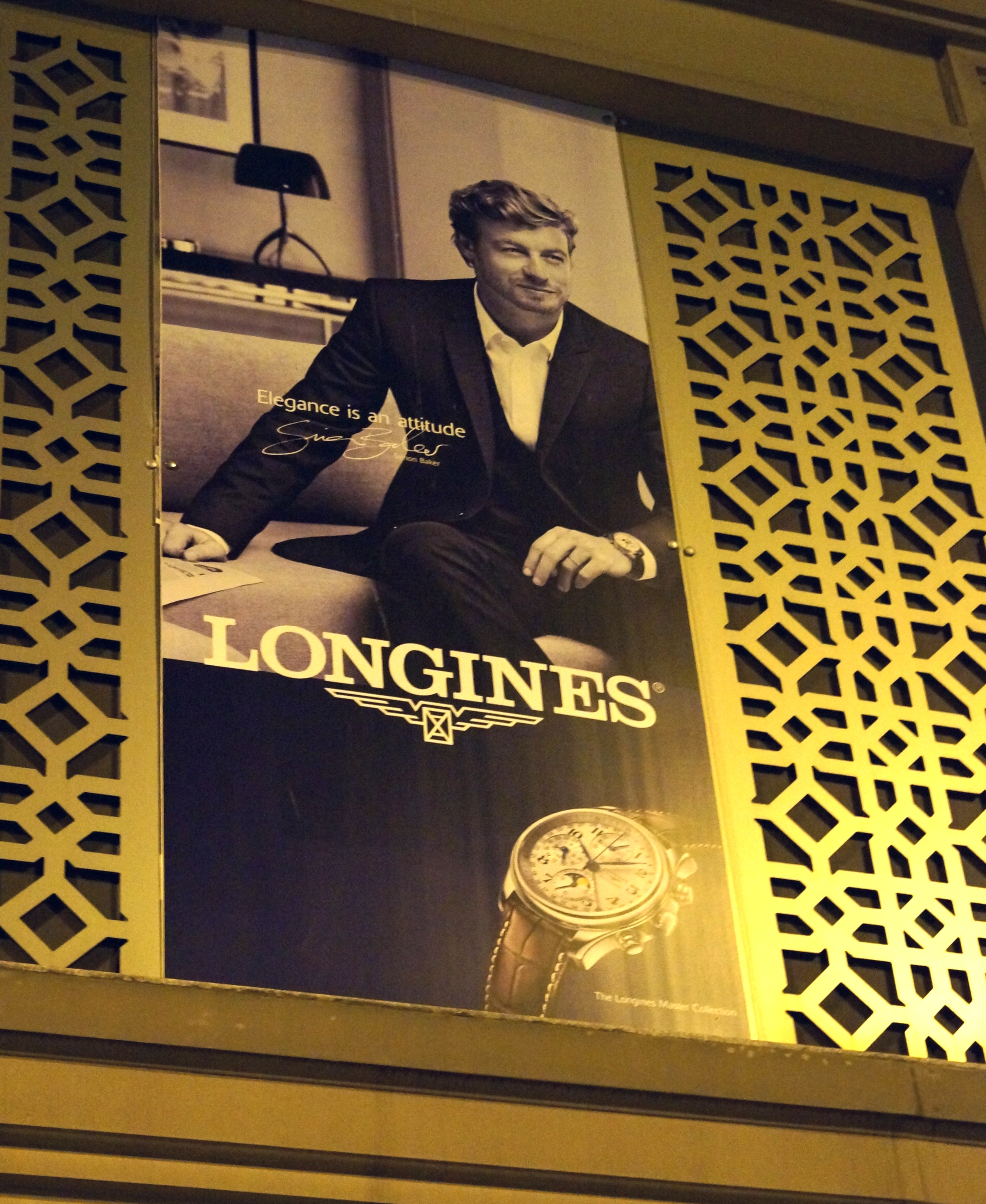 Simon Baker's been a Longines Ambassador of Elegance. Advertisement billboard in Istanbul, Turkey.